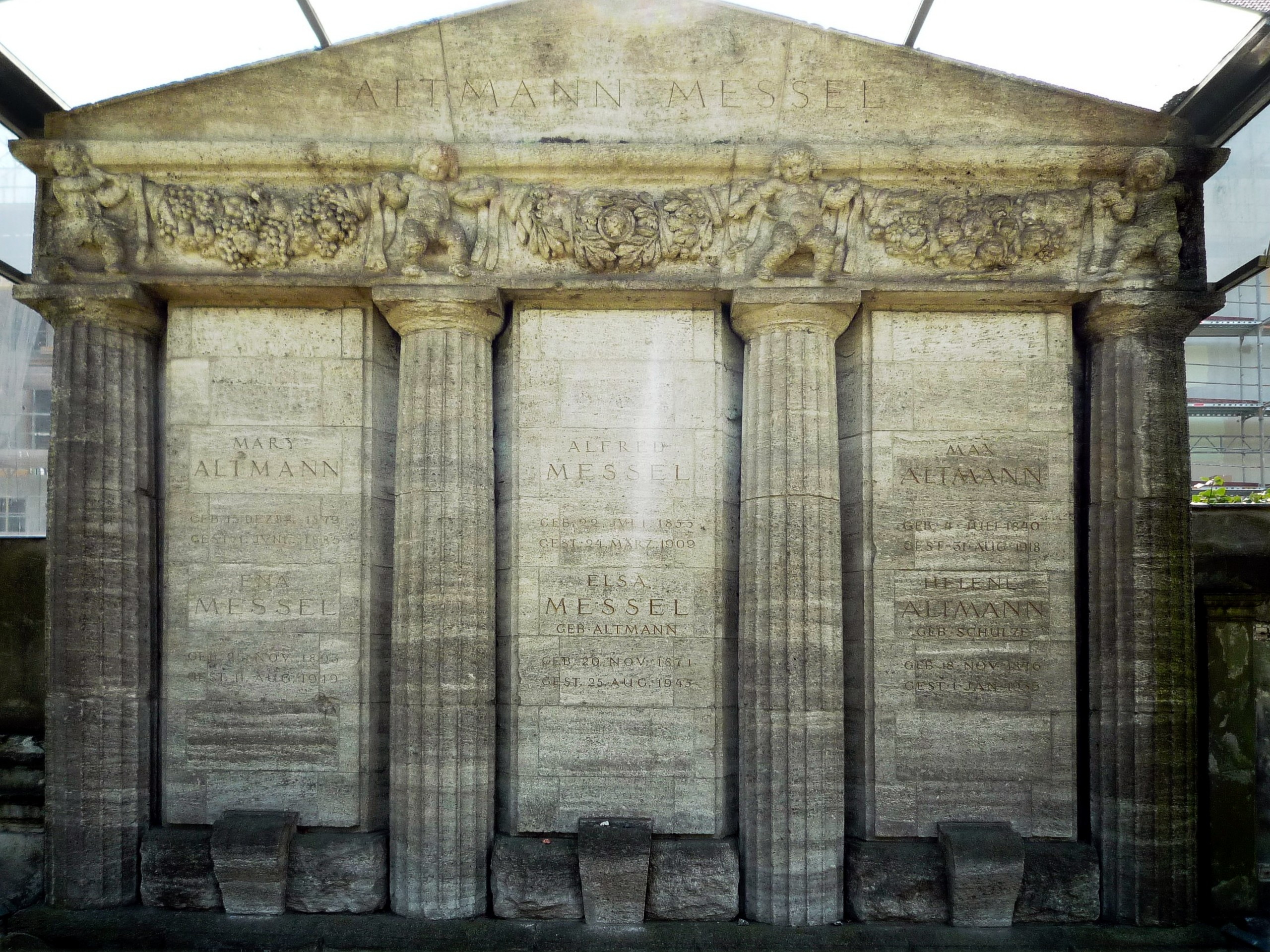 Old St. Matthew's churchyard in Berlin-Schöneberg. Gravesite of Alfred Messel (architect) and family.